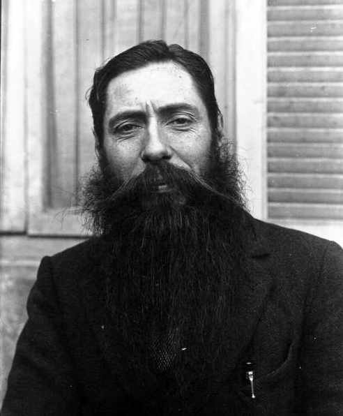 François Mayoux (24 June 1882 – 21 July 1967) was a French teacher who became in turn a socialist, communist and revolutionary syndicalist, socialist.